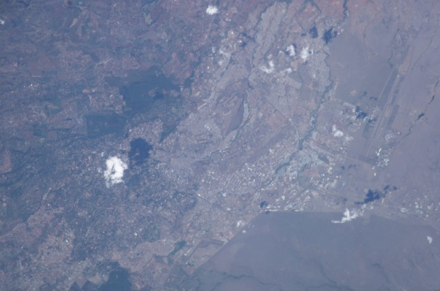 Astronaut Photo of Nairobi, Kenya taken from the International Space Station (ISS) during Expedition 8 on March 23, 2004.